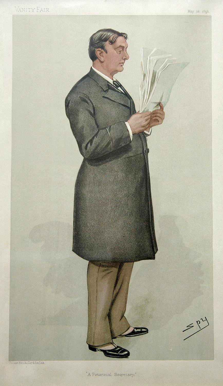 Caricature of Robert William Hanbury MP. Caption read "A Financial Secretary".